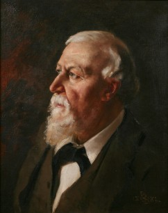 Portrait of Robert Browning by his son